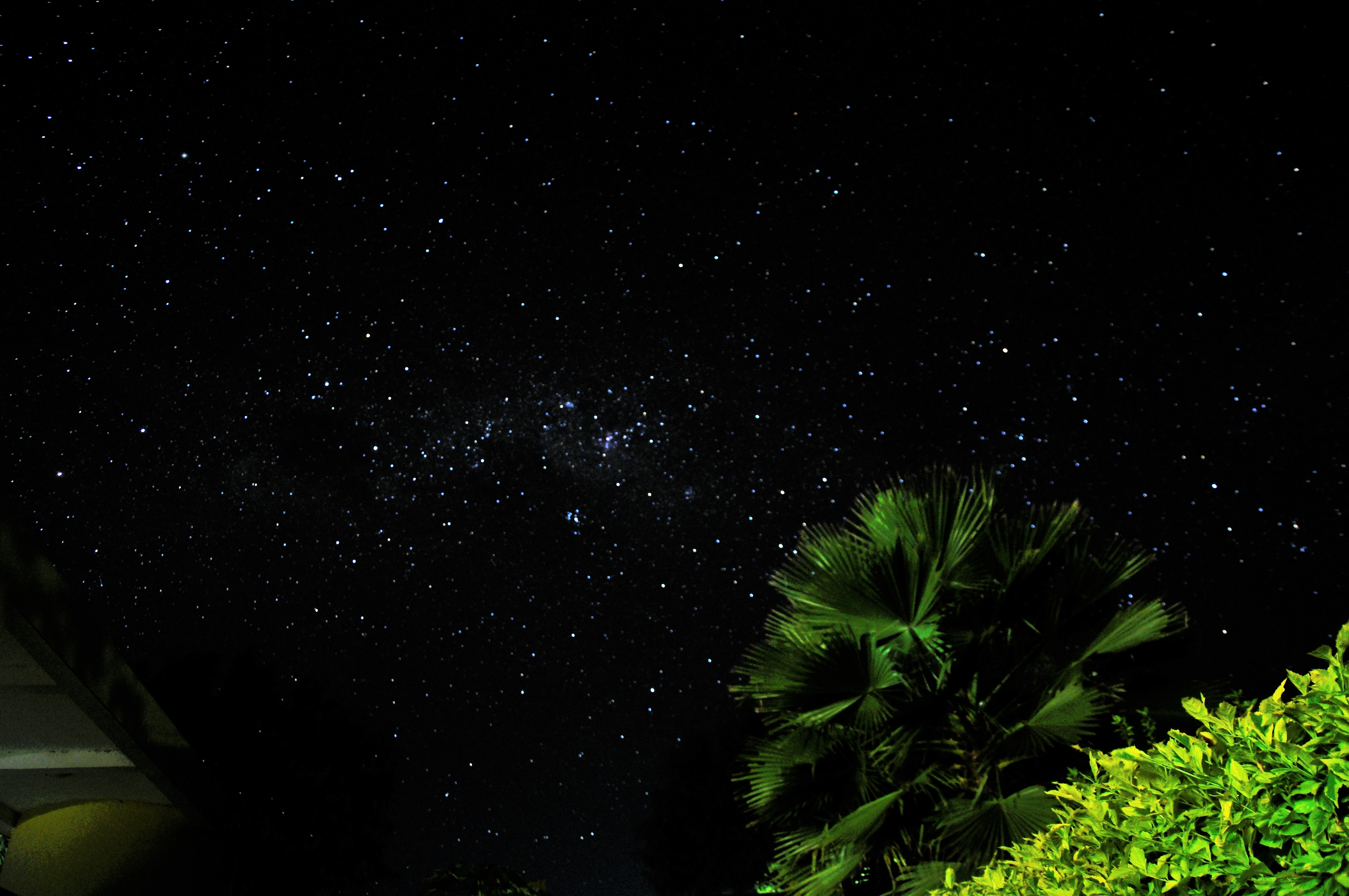 The starry night in the inland Tanzania.